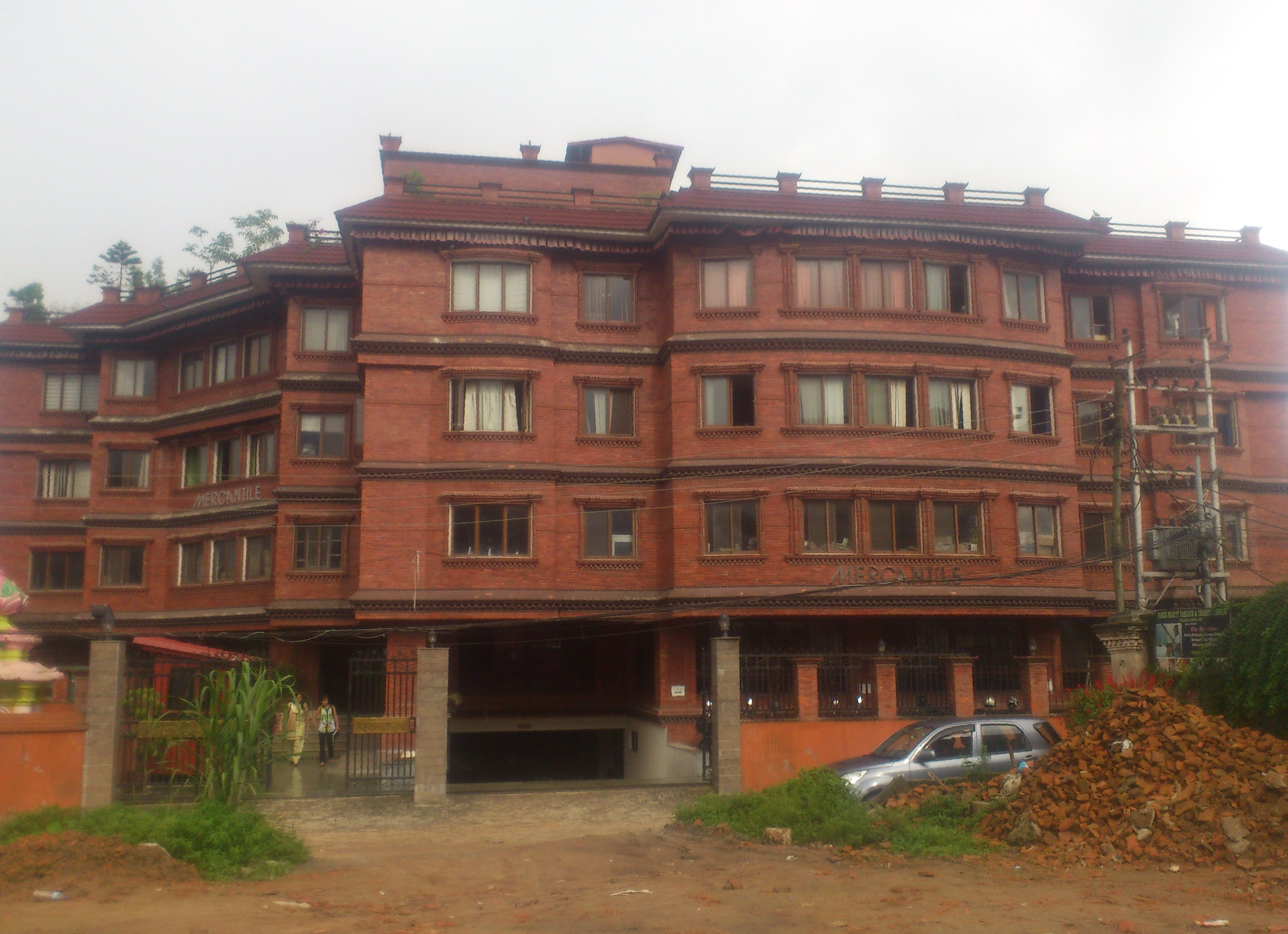 This photo of Mercantile Communication's head office Durbar Marg, Kathmandu has been taken on 25 th July 2013 with the help of my friend Mahesh Adhikari.